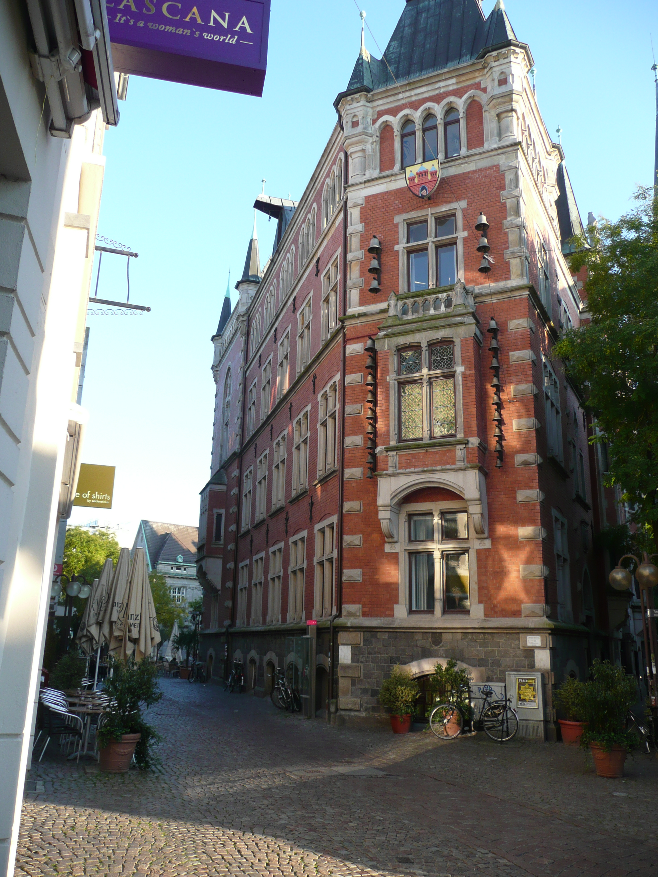 City Hall of Oldenburg